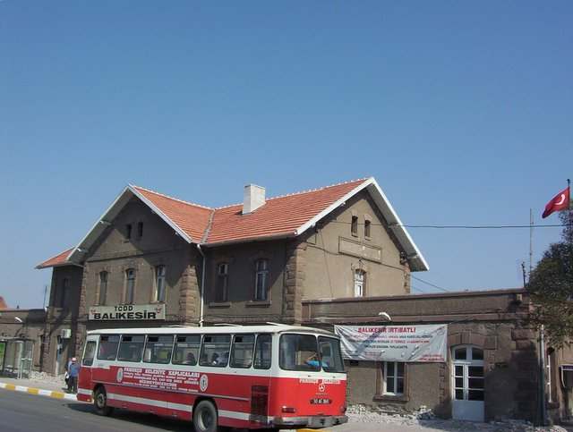 Balikesir railway station building in 2003.